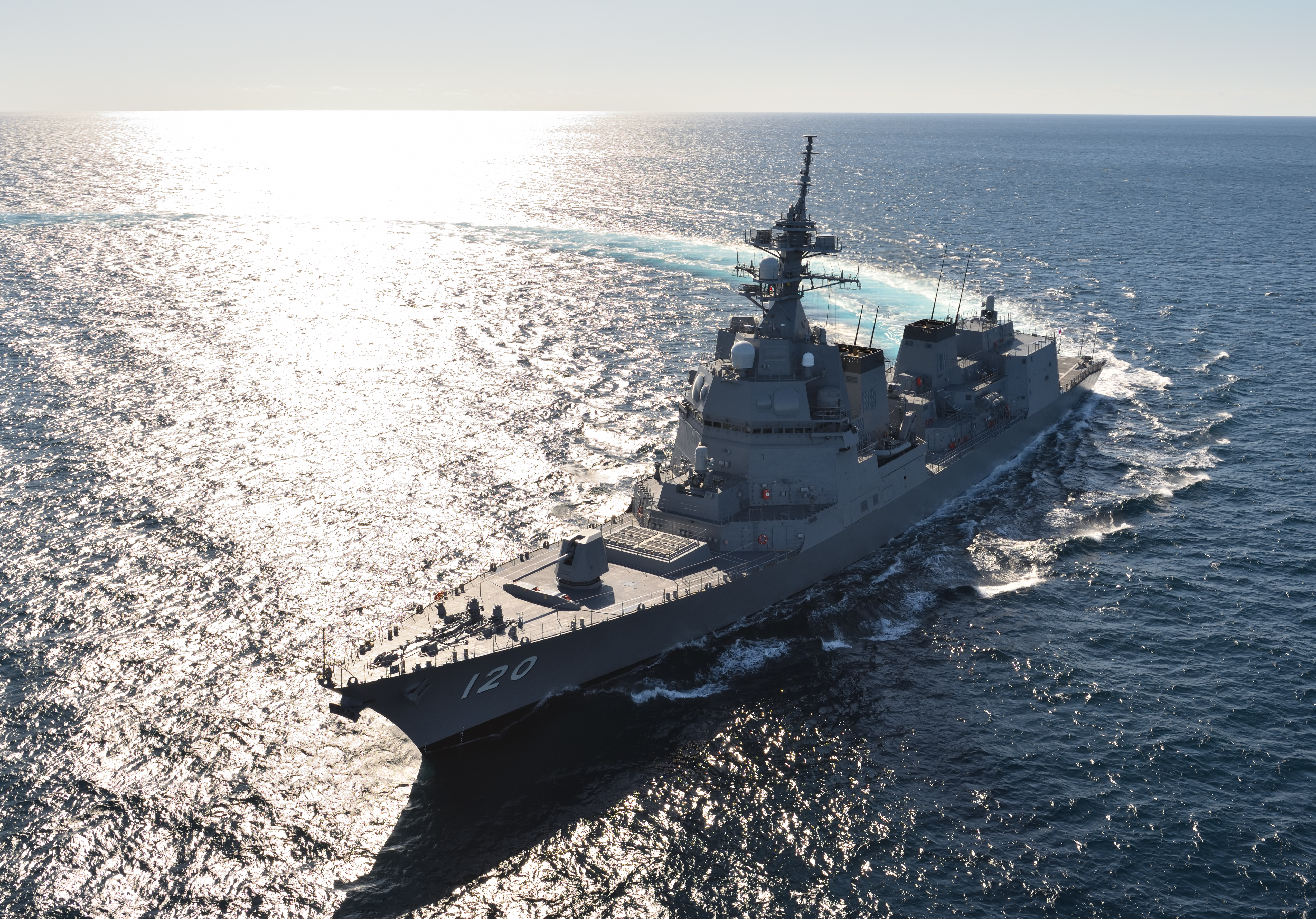 JMSDF Destroyer JS "Shiranui" in Ocean